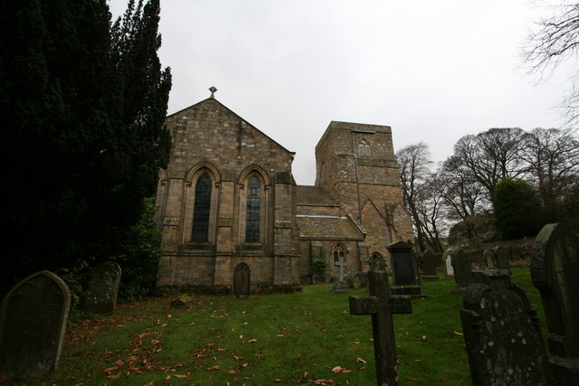 St Mary's Abbey church, Blanchland, Northumberland, seen from the east